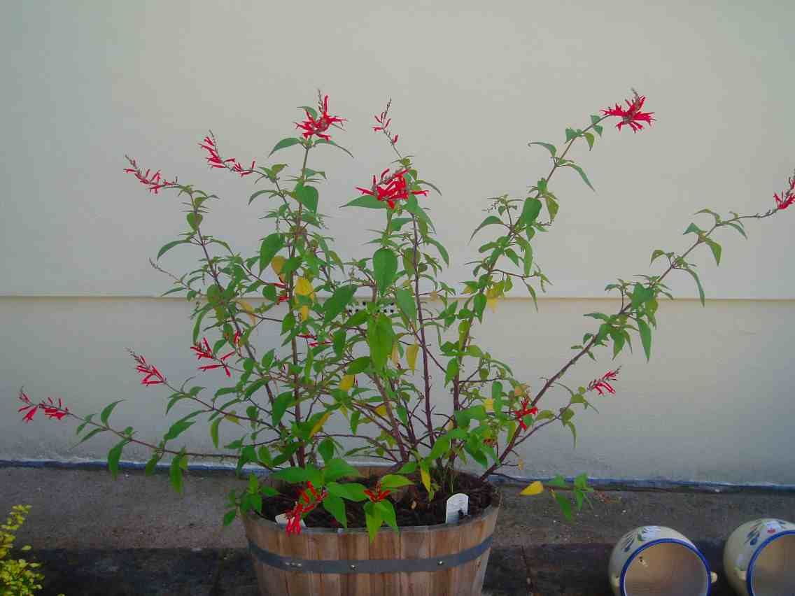 Pineapple Sage in flower